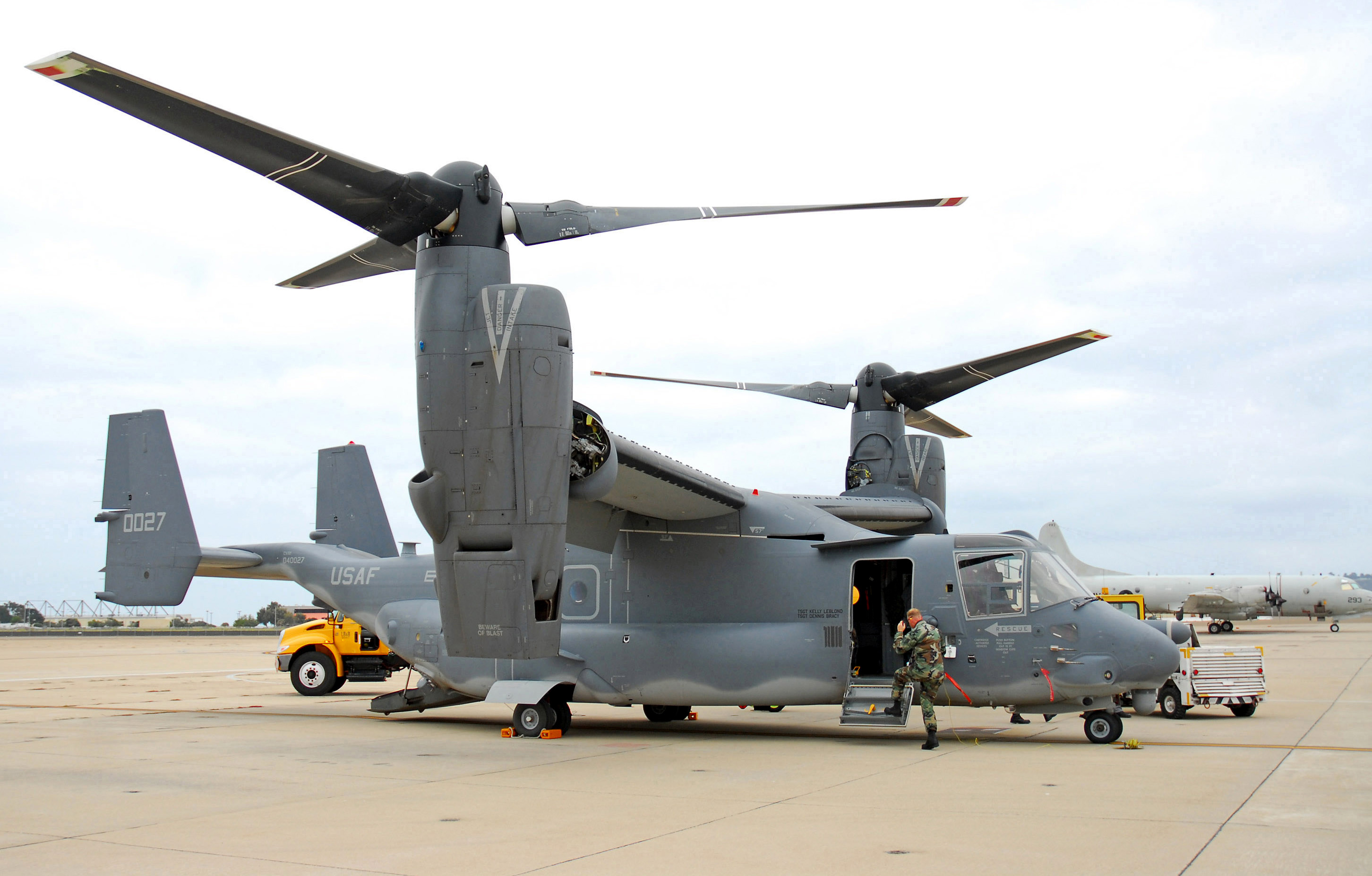 V-22 Osprey, sideview.